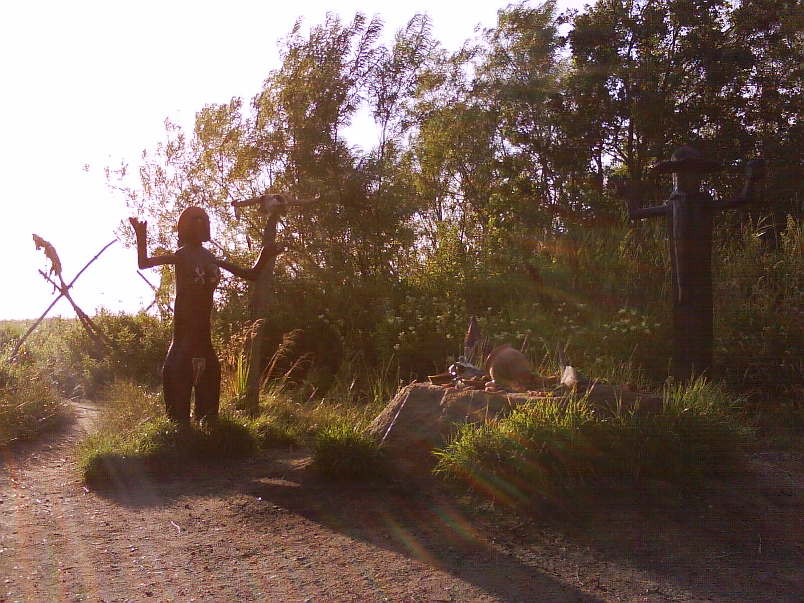 Reconstruction of Scandinavian pre-christian vé, at the museum of Bork Vikingehavn, Denmark